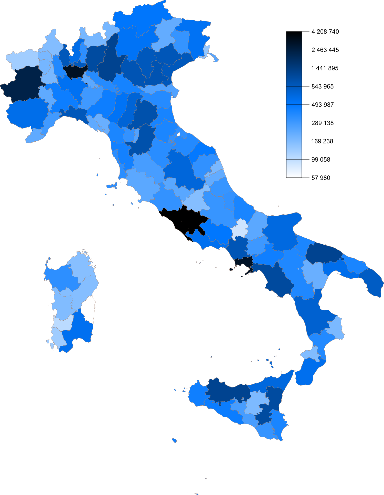 Population of Italian provinces